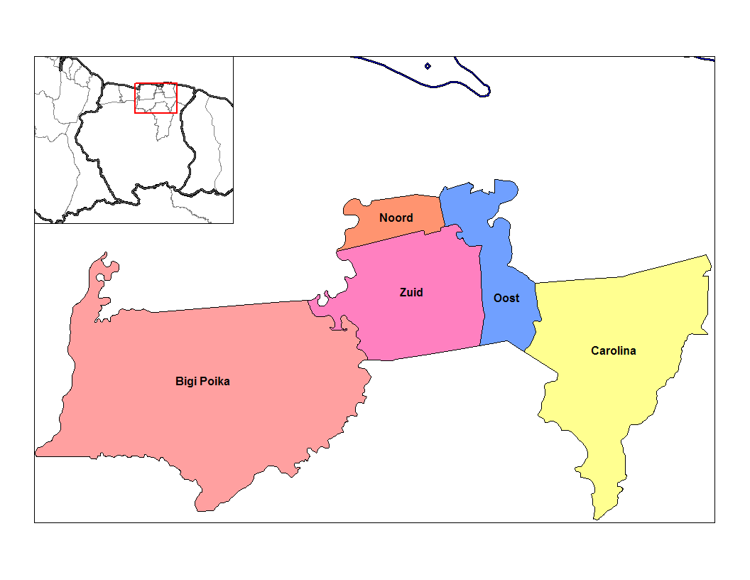 Map of the resorts of the Para district in Suriname. Created by Rarelibra 22:49, 27 December 2006 (UTC) for public domain use, using MapInfo Professional v8.5 and various mapping resources. Rarelibra 22:49, 27 December 2006 (UTC)